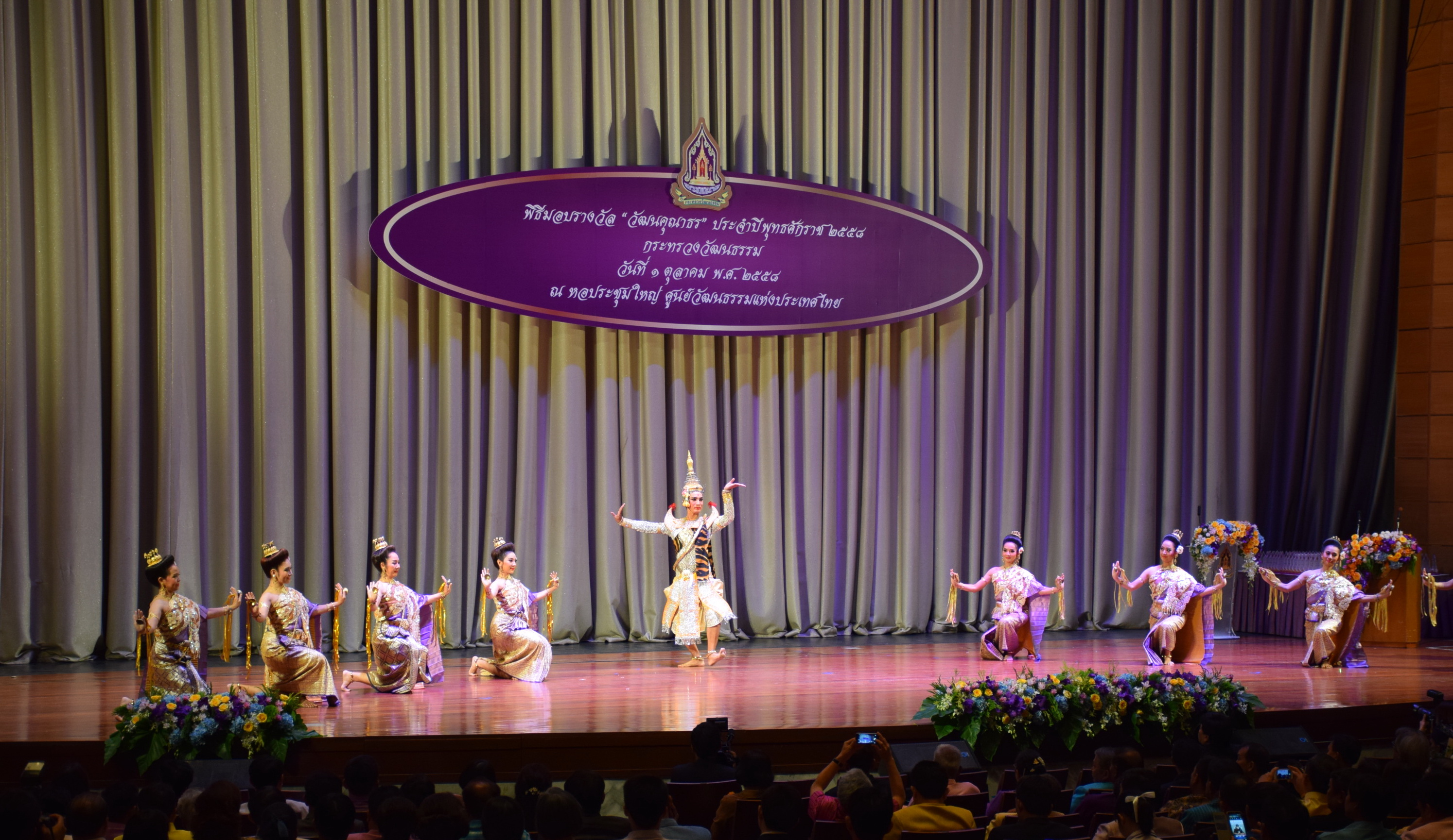 . at Thailand Cultural Centre. Date2015SourceOwn workAuthor ผู้สร้างสรรค์ผลงาน/ส่งข้อมูลเก็บในคลังข้อมูลเสรีวิกิมีเดียคอมมอนส์ - เทวประภาส มากคล้าย Permission (Reusing this file)